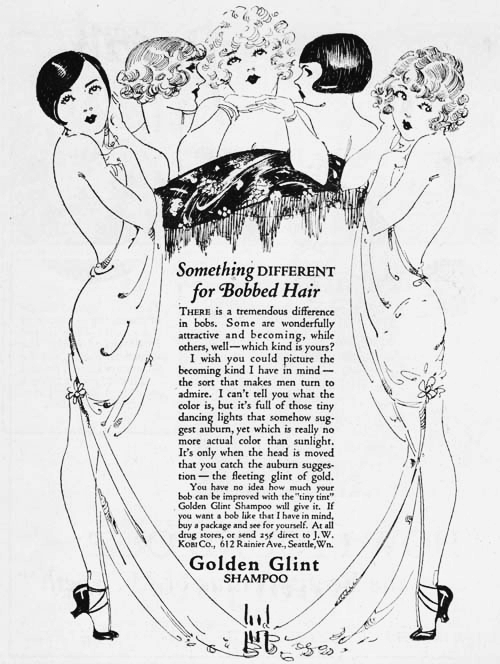 Specimen commercial artwork by Wesley Morse, from a 1927 magazine ad.